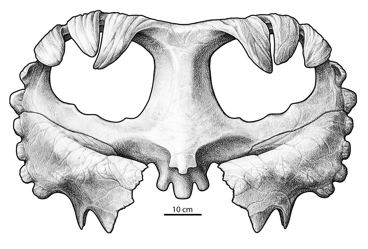 Reconstruction of parietal bones (frill) of Wendiceratops pinhornensis.